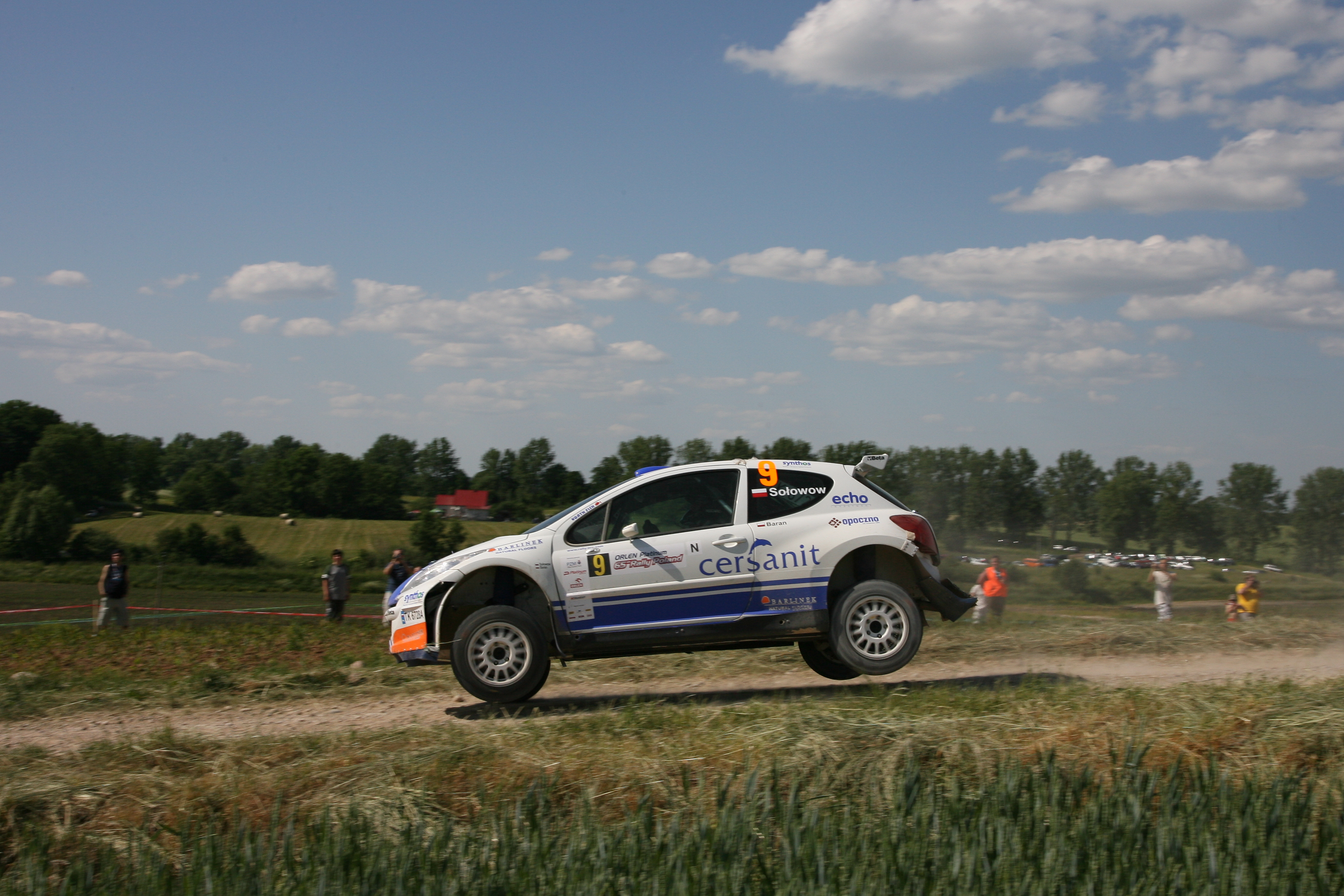 Cersanit Rally Team, Michal Solowow, Maciej Baran